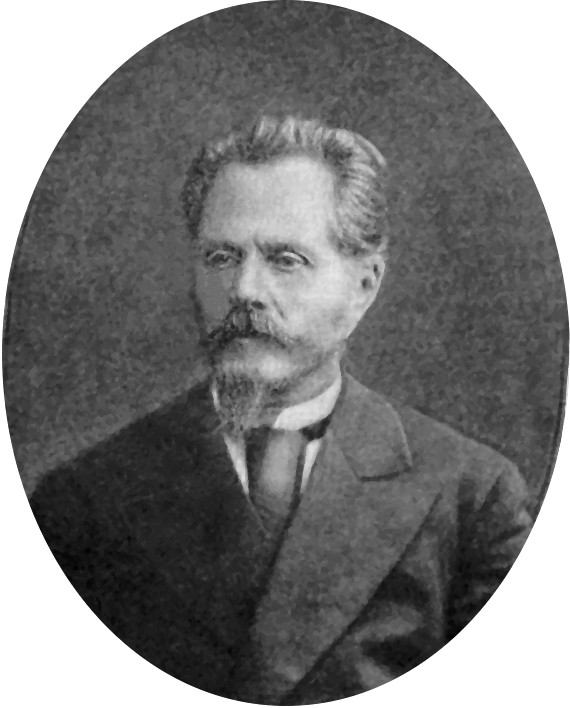 Russian writer Nikolay Ivanovich Naumov (1838-1901)